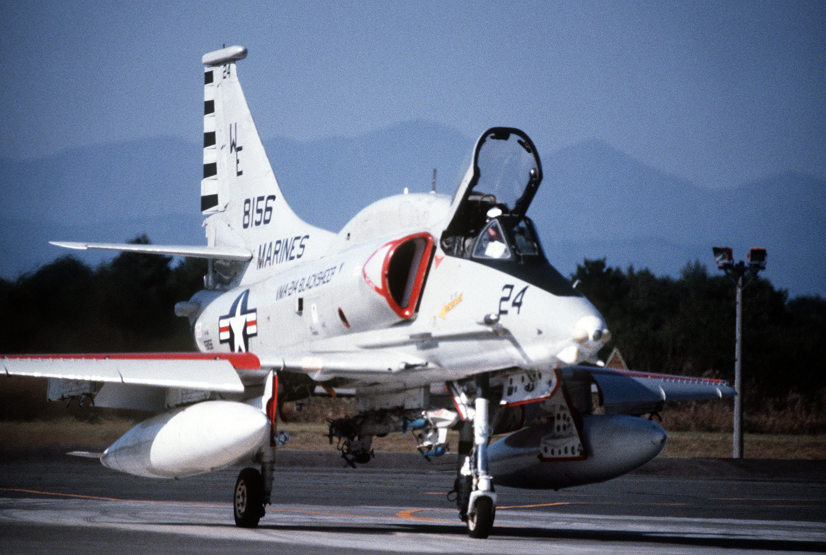 A McDonnell Douglas A-4M Skyhawk (BuNo. 158156) aircraft of Marine light attack squadron VMA-214 Blacksheep taxiing out on the runway of Misawa Air Base (Amori, Japan) during exercise Cope North '80 on 15 Oct 1980.